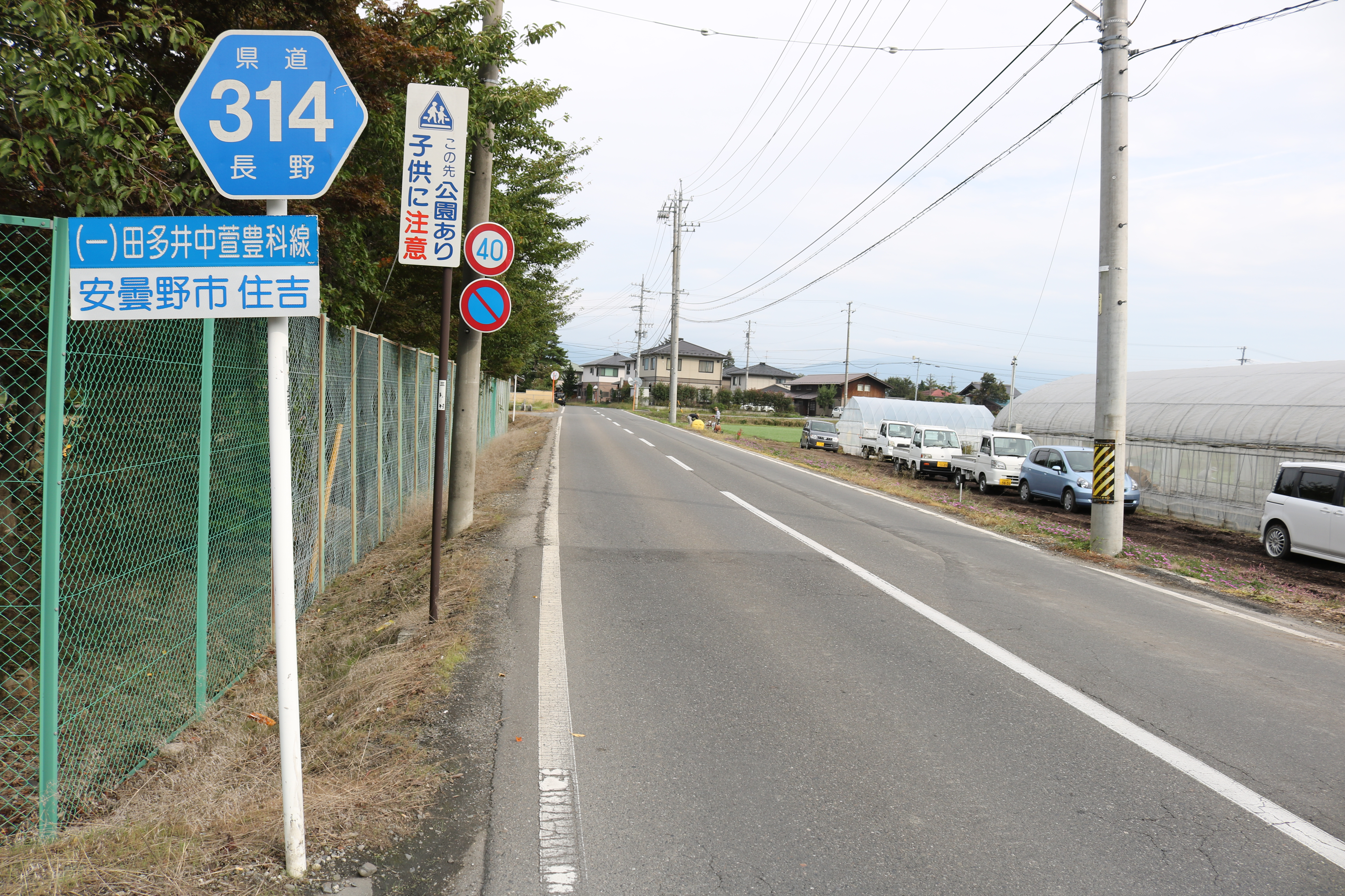 Nagano Prefectural Road Route 314 in Sumiyoshi, Azumino, Nagano prefecture, Japan.